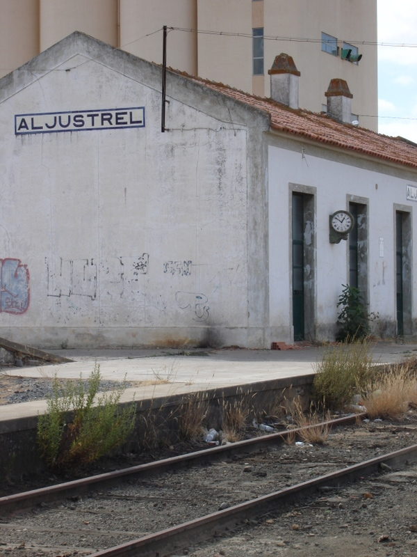 Railway station of Aljustrel